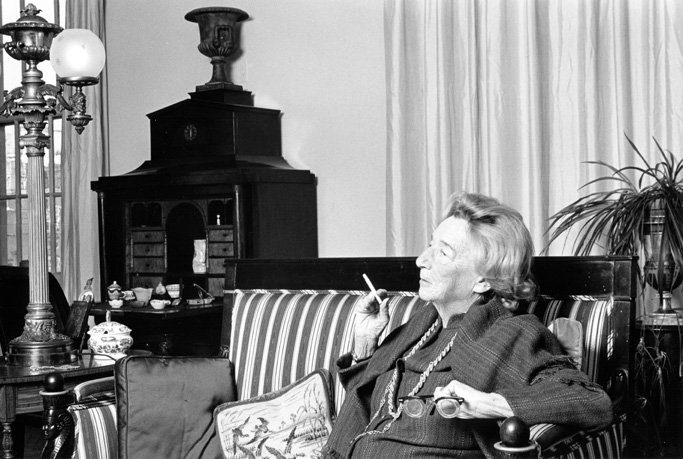 Lillian Hellman in her apartment, as photographed by ©Lynn Gilbert 1977, New York.